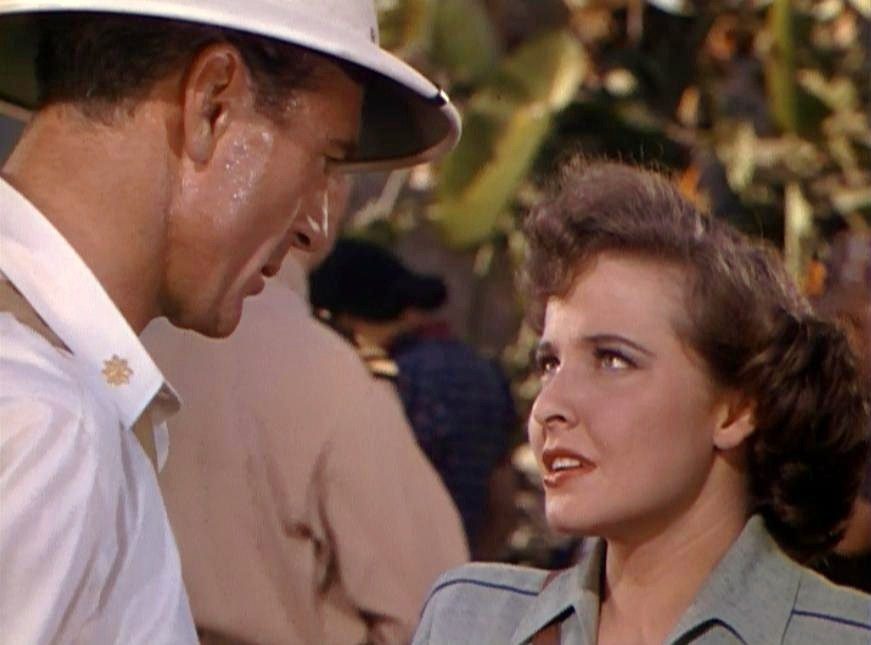 Gary Cooper & Laraine Day in The Story of Dr. Wassell - trailer (cropped screenshot)